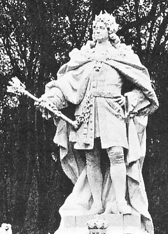 Monument group № 26 (detail) in the former Siegesallee in Berlin. The central monument commemorates Frederick I of Prussia. Sculptor: Gustav Eberlein, inaugurated 3 May 1900.